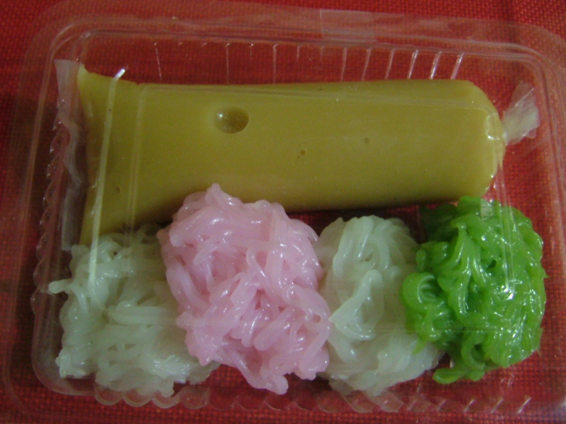 Putu Mayang, sweets made of rice flour, served with coconut milk and melted brown sugar